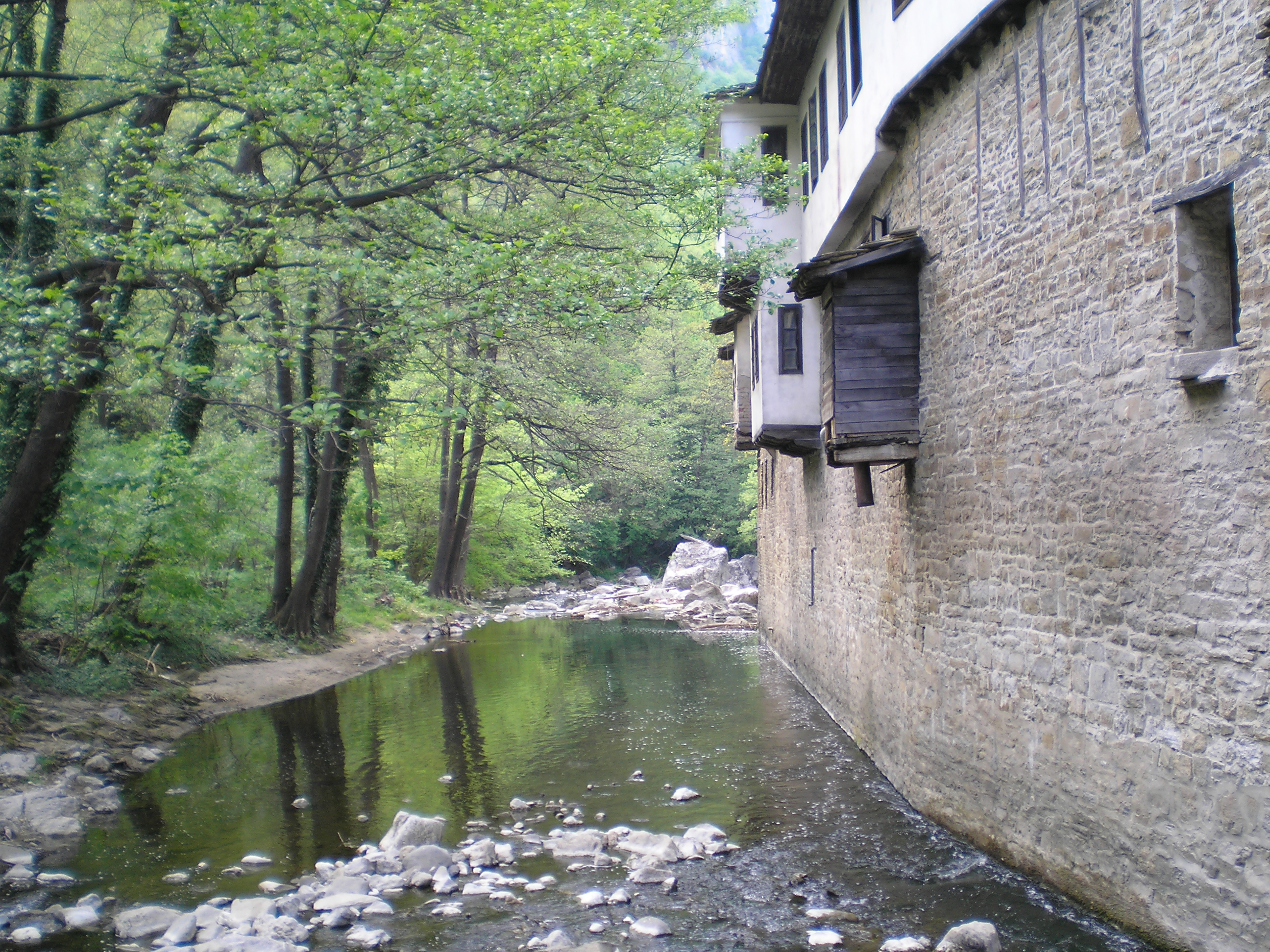 An outside view of the Drqnovski Monestery